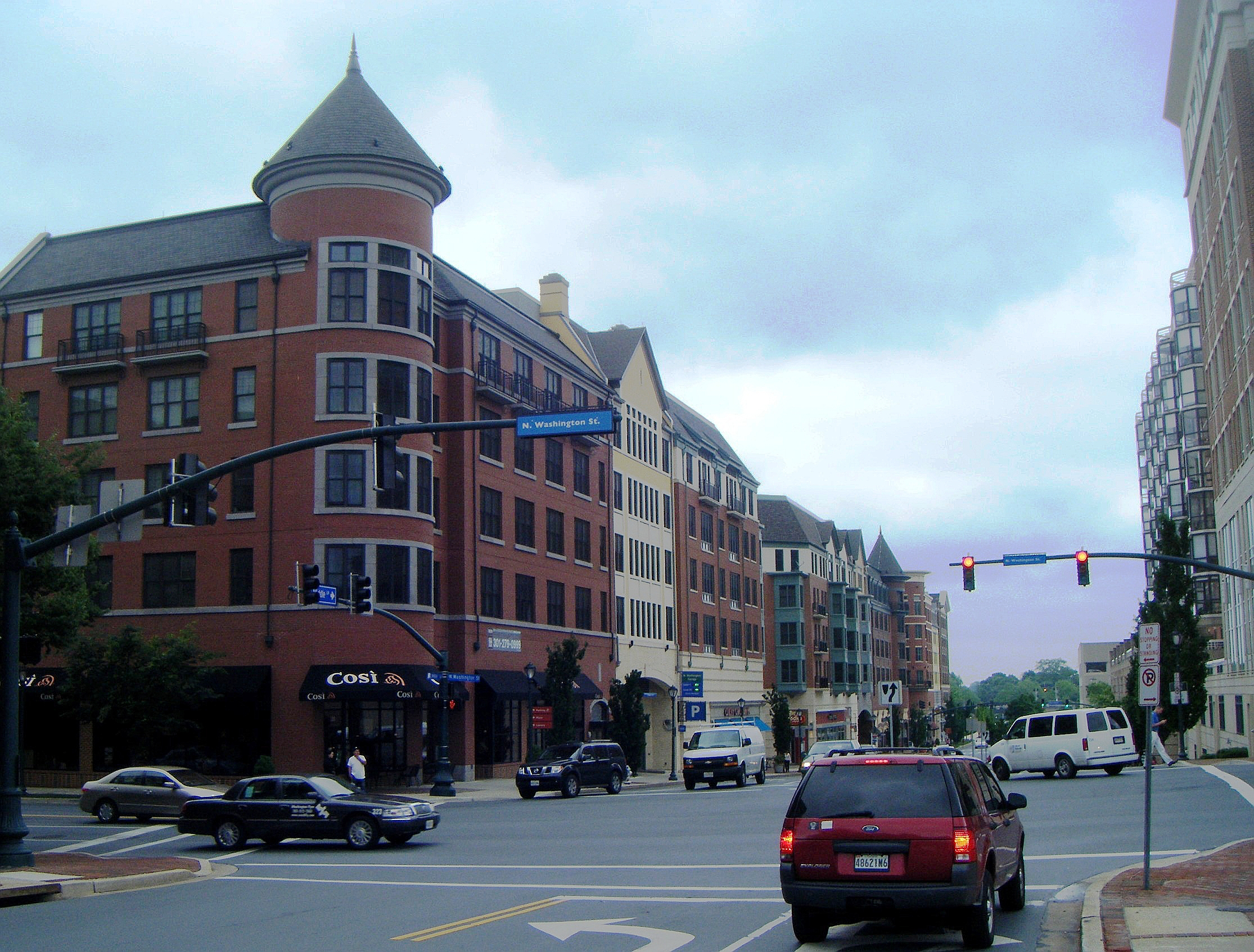 Looking down East Middle Lane, Rockville, Maryland at the new Rockville Town Square complex